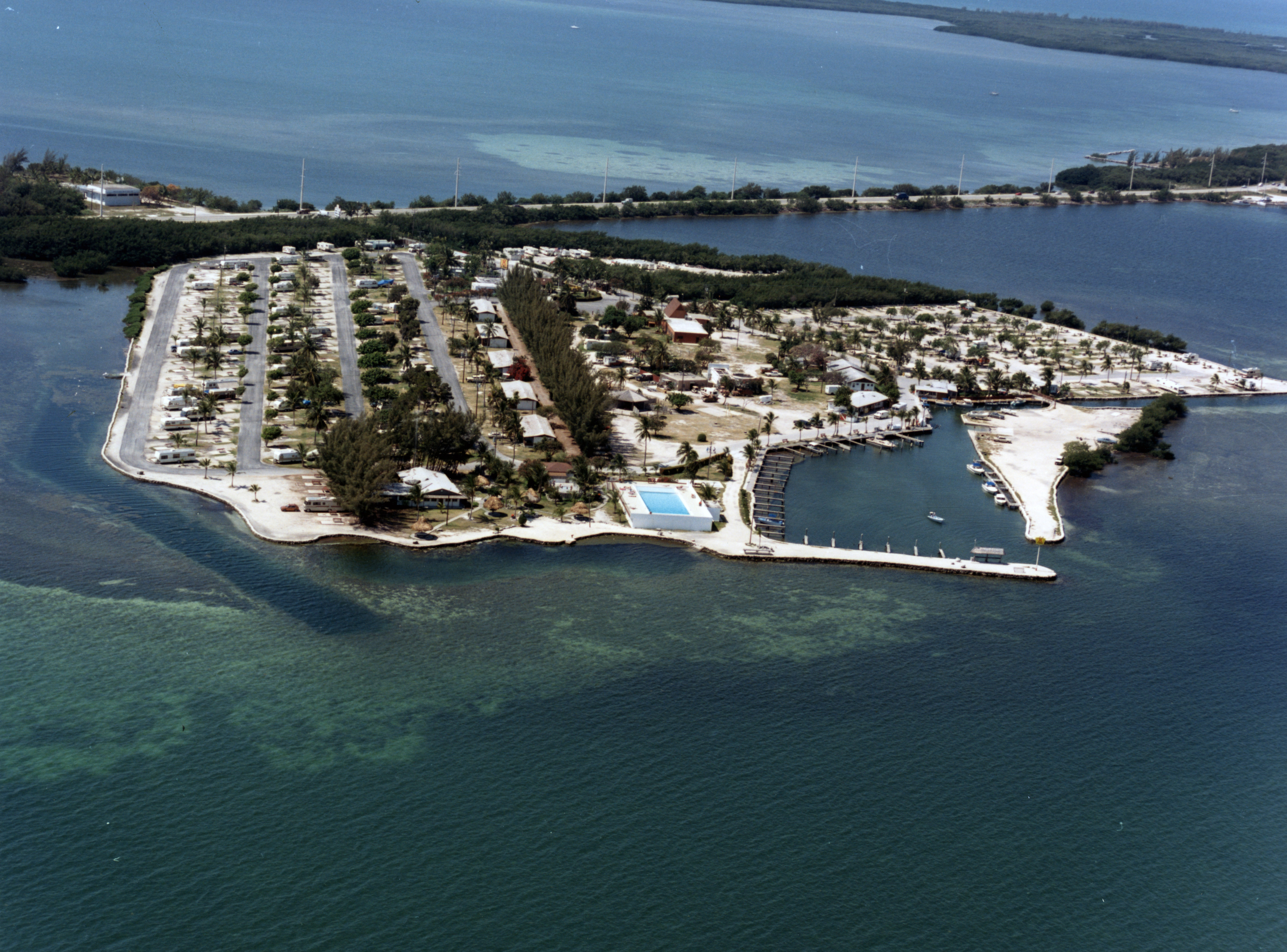 Aerial of Fiesta Key. Photo taken by the Federal Government on October 7, 1987. From the Wright Langley Collection.